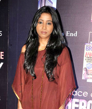 Shilpa Rao grace the Hindustan Times's Brunch Dialogues